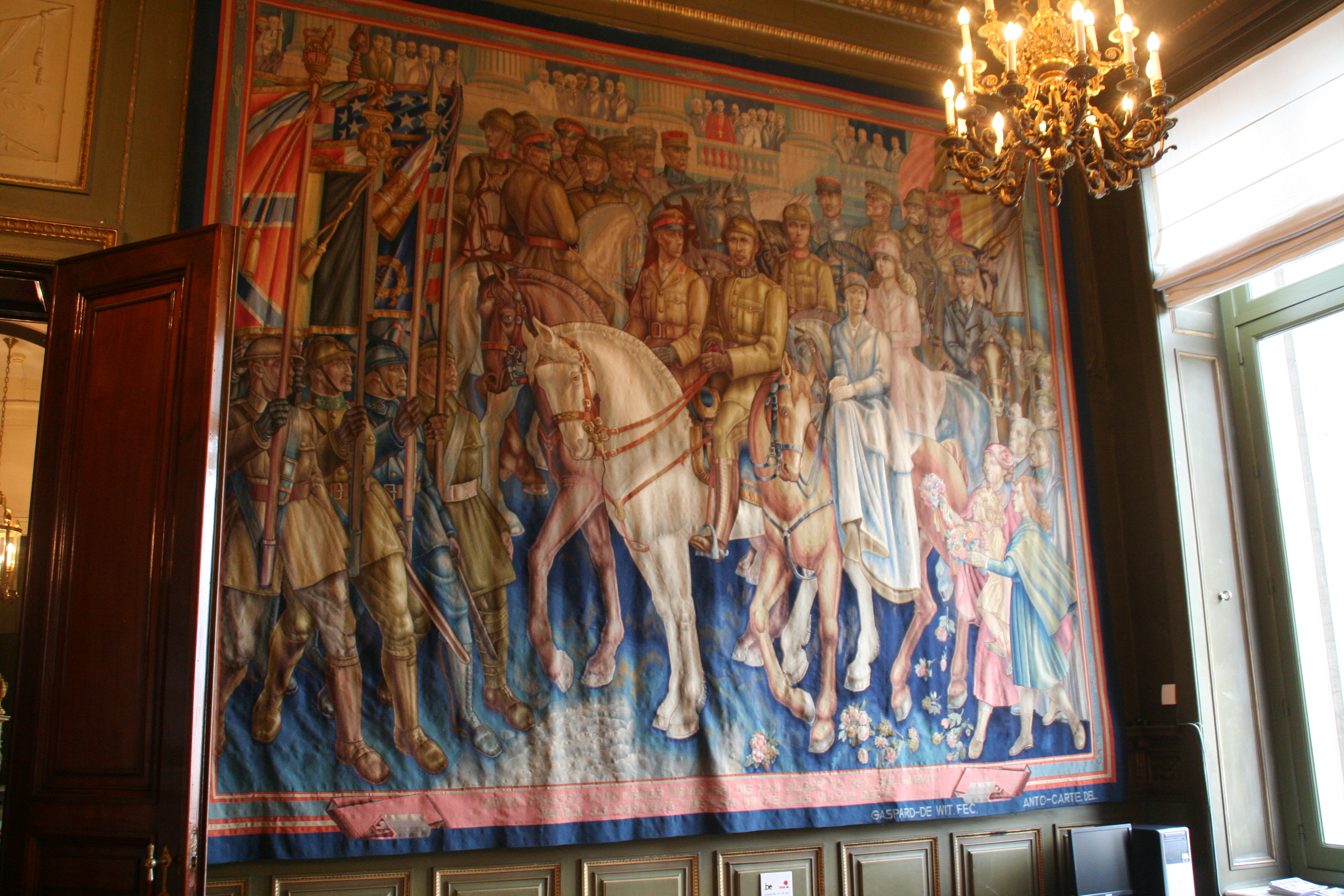 Tapestry representing the Joyous Entry in 1918 of king Albert I and Queen Elisabeth of Belgium in Brussels, Belgium.